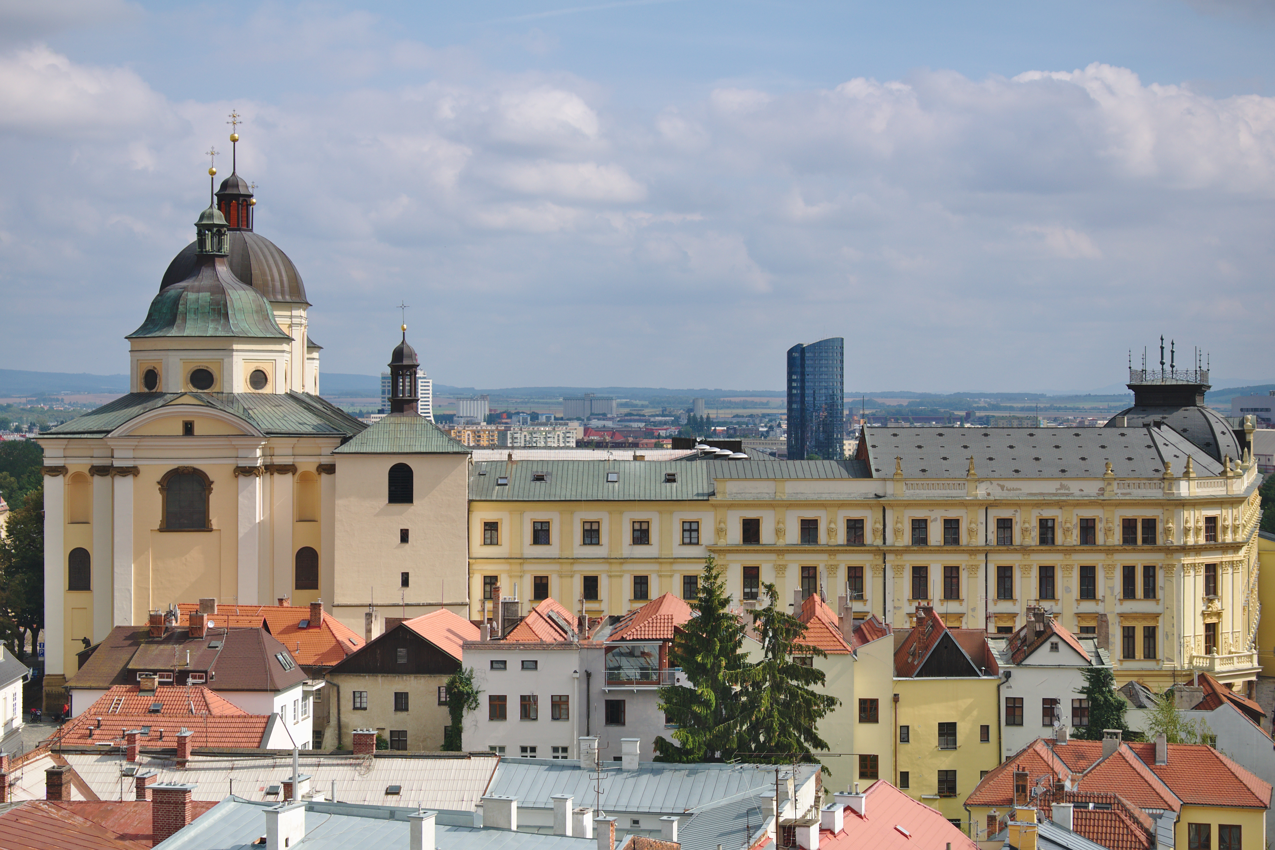 Church of Saint Michael and dominican monastery, Olomouc